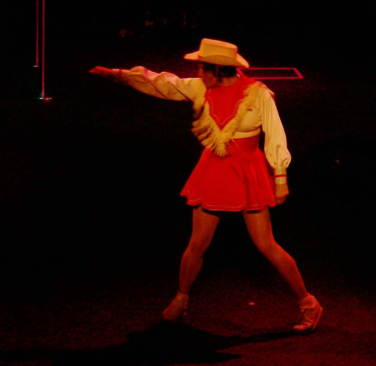 Dancer Kara O'Toole performing an excerpt from choreographer Pat Graney's Jesus Loves the Little Cowgirls at the Moore 100 Open House Celebration, celebration of the 100th anniversary of the Moore Theatre, Seattle, Washington.